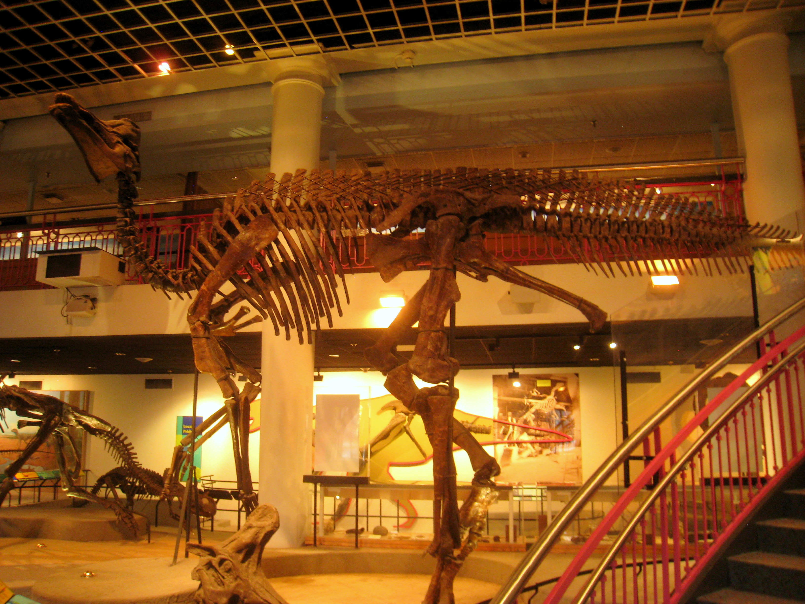 Corythosaurus casuarius fossil. Exhibit in the Academy of Natural Sciences, 1900 Benjamin Franklin Parkway, Philadelphia, Pennsylvania, USA. Photography was permitted in this area of the museum without restrictions.